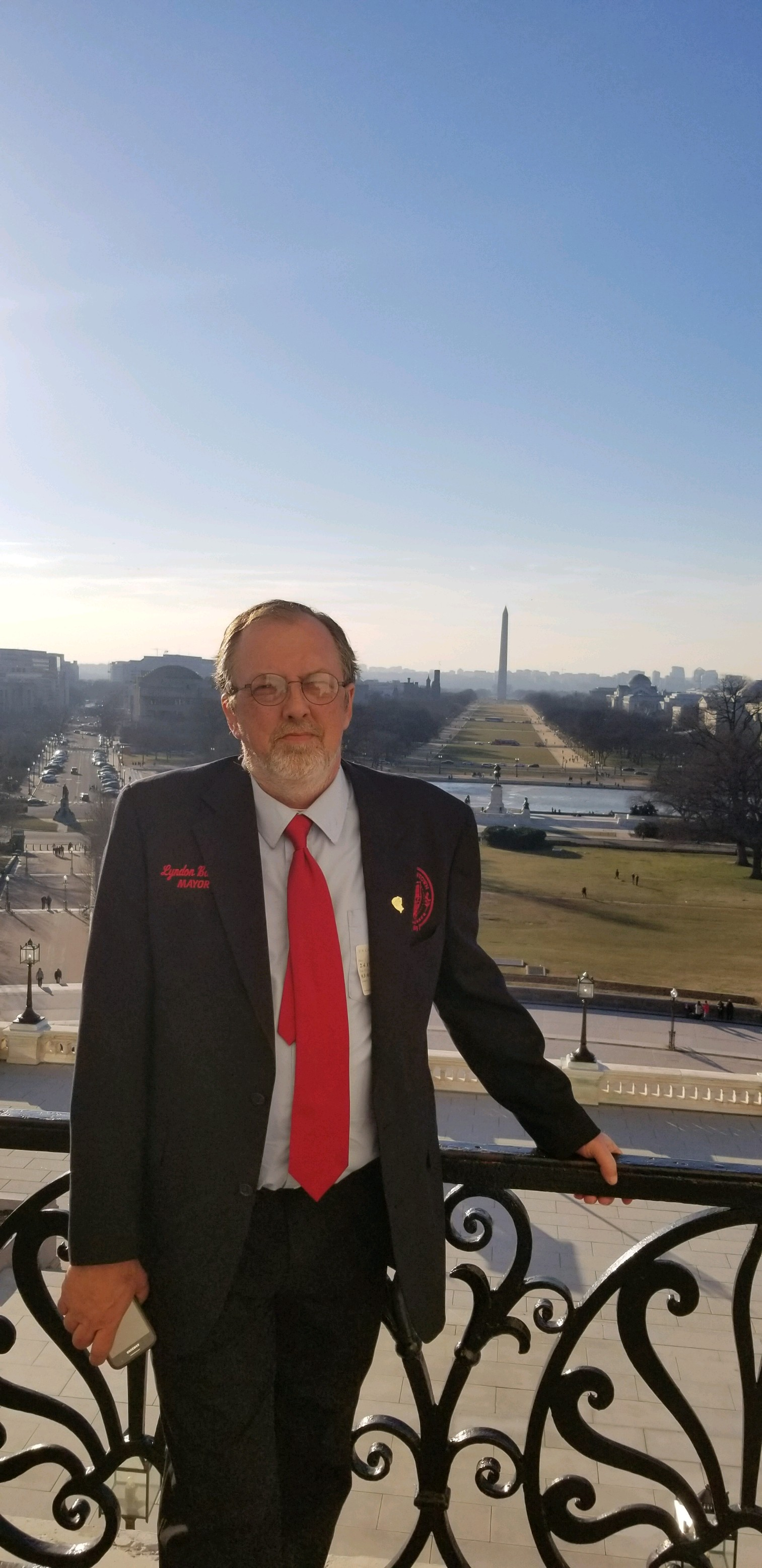 in Washington dc 2019